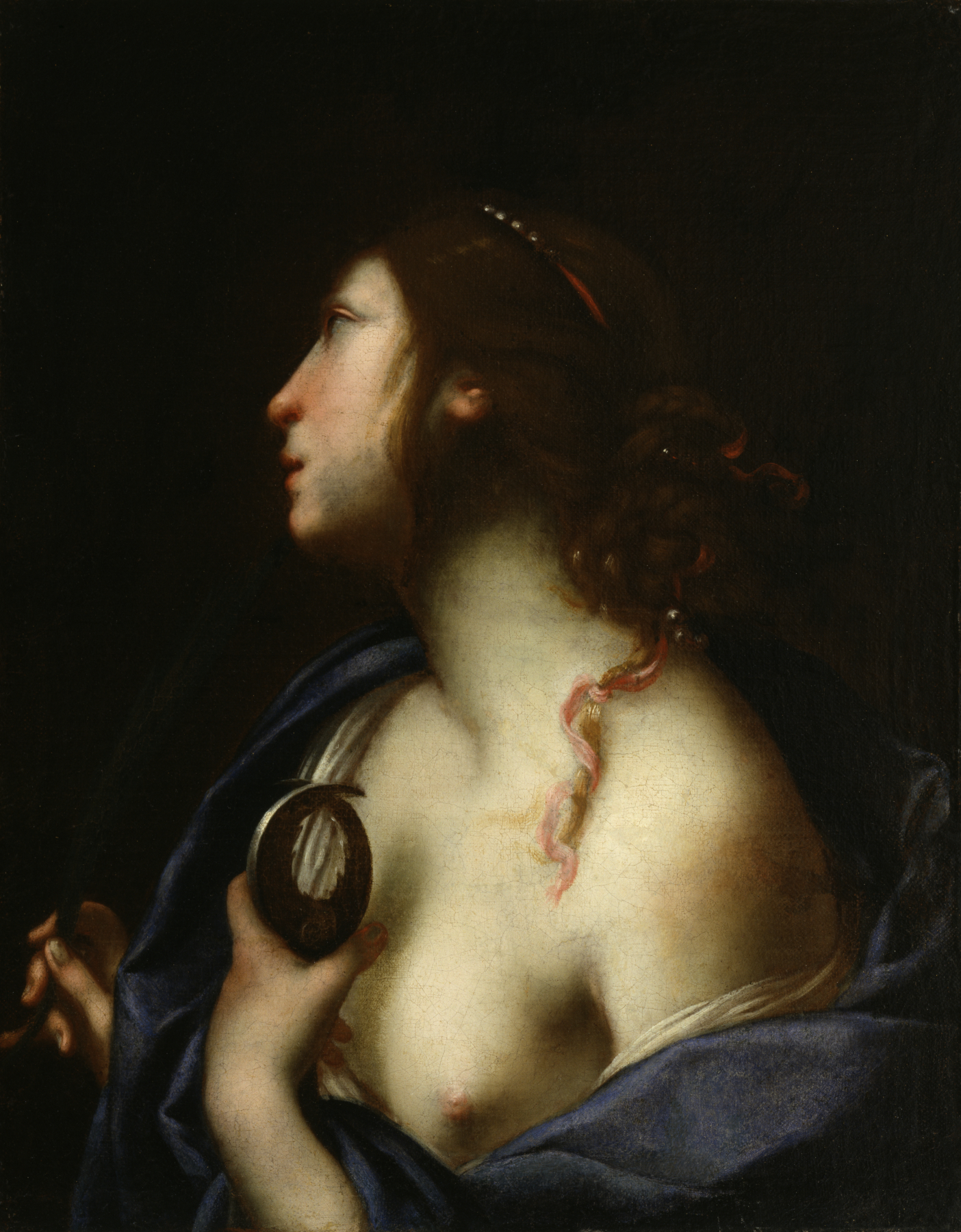 The early Christian martyr St. Agatha was pursued by the consular official of Sicily. She refused him, and the tortures to which he submitted her included cutting off her breasts. They were restored though the divine intervention of St. Peter. This devotional image shows the saint contemplating God while tenderly holding the pincers, the instruments of her sufferings through which she achieved her sanctity. The palm branch is the attribute of martyrs. The way in which the saint is modeled with soft sfumato (an almost invisible rendering of the transitions from light to shade) and emerges from a dark background is characteristic of Furini's work.